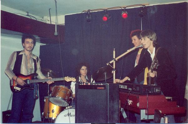 I Twenty Four Hours nel 1982